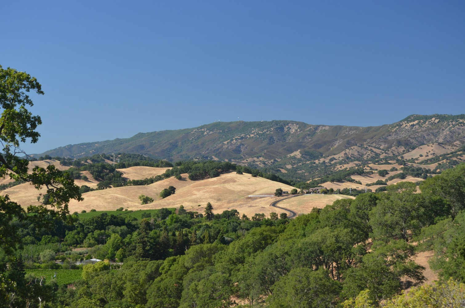 Mount Vaca and Blue Ridge, high points of Vaca Mountains in Solano County, Calif.